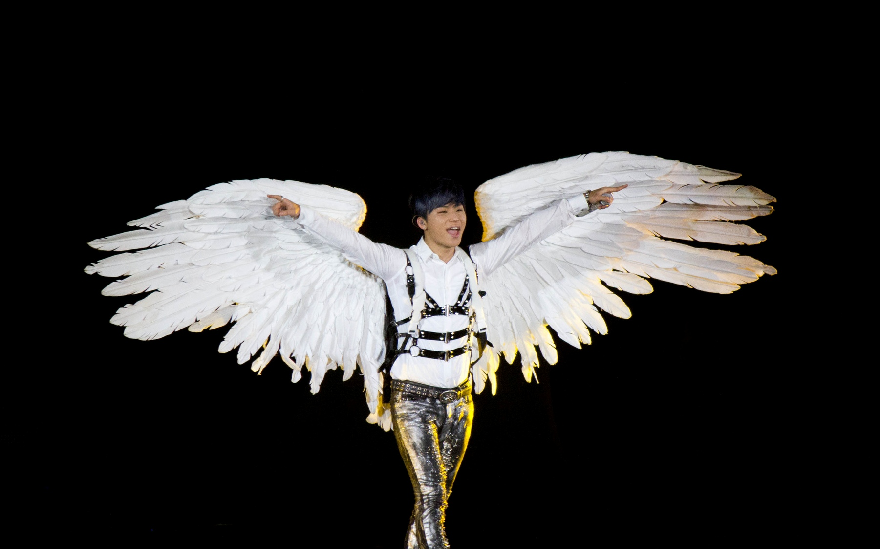 Daesung performing on Alive World tour